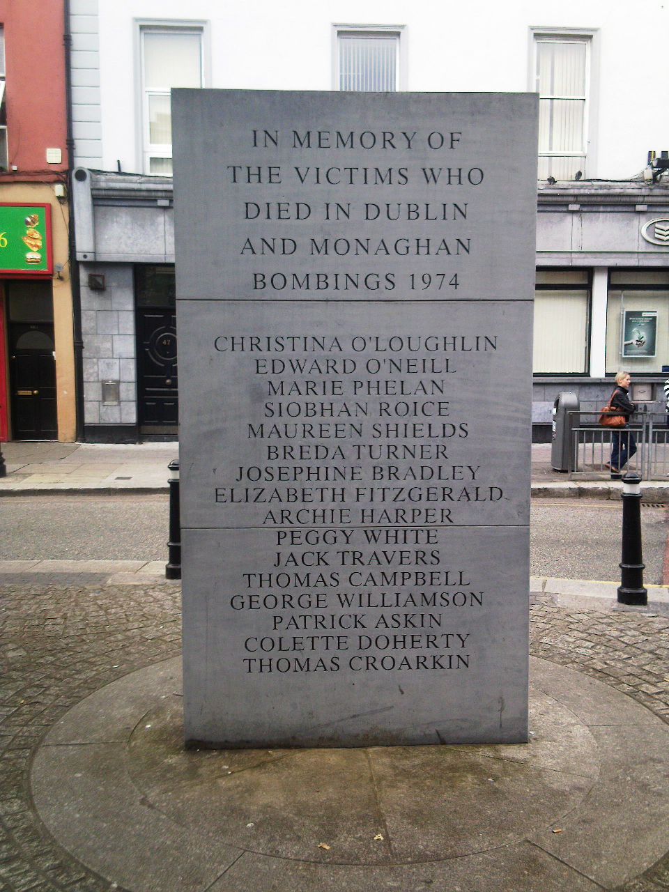 Front side of a monument to the victims of the Dublin and Monaghan bombings in Talbot Street, Dublin. The back side lists a further 17 names.